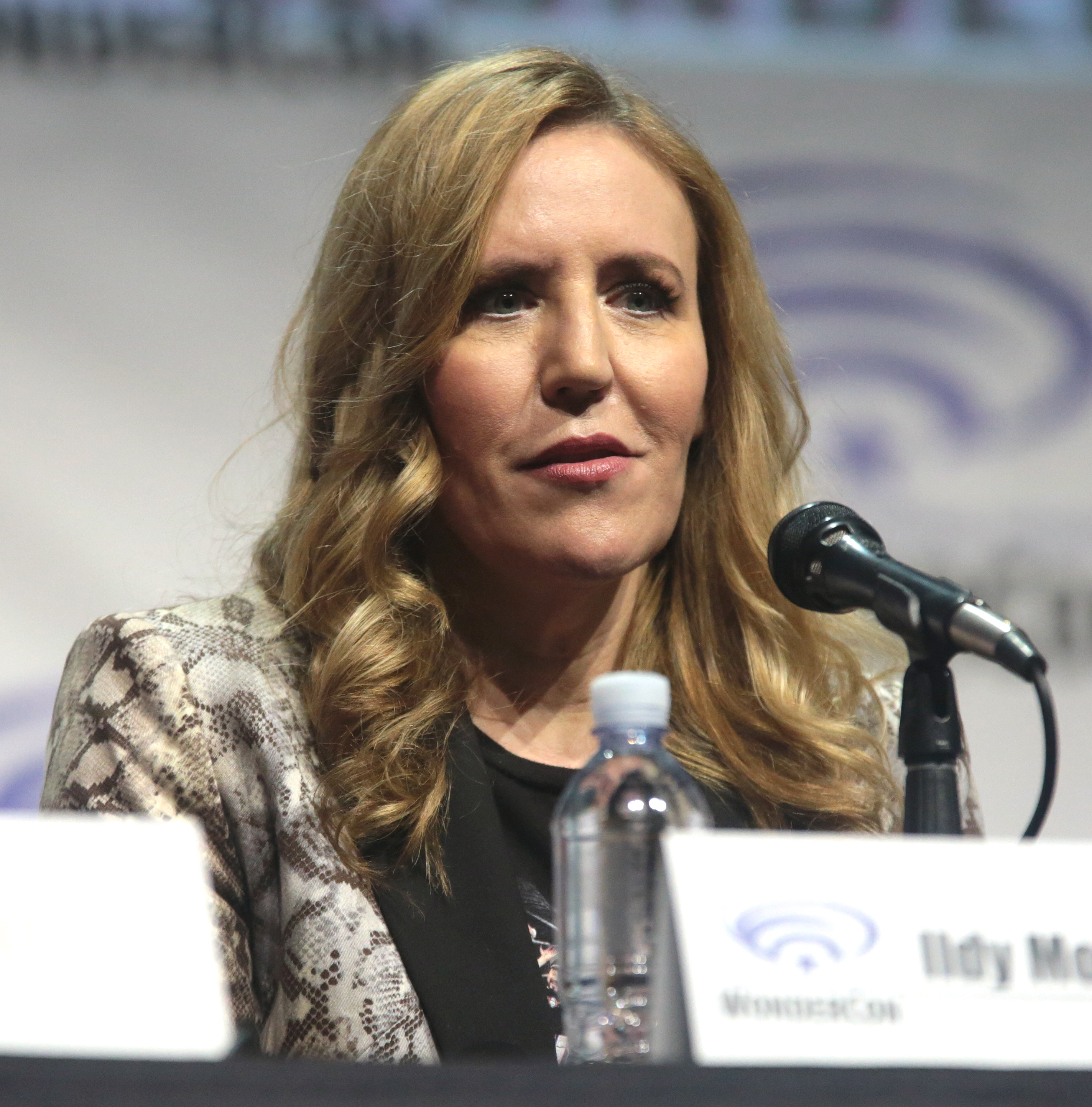 Ildy Modrovich speaking at the 2017 WonderCon in Anaheim, California.